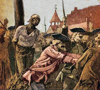 In 1741, British authorities executed 34 people for conspiring to burn down the city. Thirteen African American men were burned at the stake and another 17 black men, two white men, and two white women were hanged. An additional 70 blacks and seven whites were banished from the city